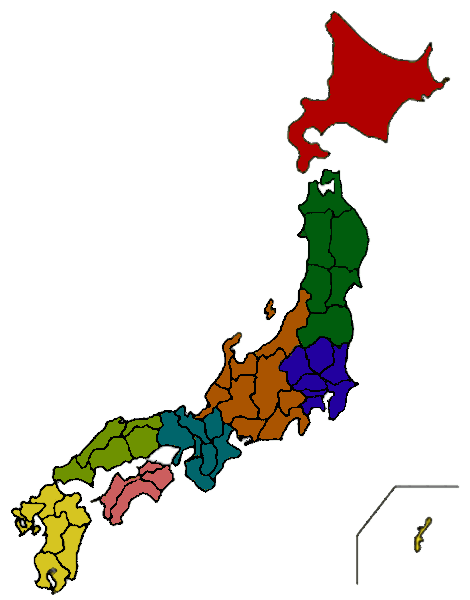 Regions of Japan. Own Work by Christian Günther (Löschen) (Aktuell) 13:57, 28. Okt 2004 . . Christian Günther (Diskussion) . . 470 x 600 (32978 Byte)